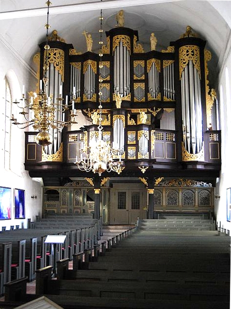 Schnitger organ Stade, St. Cosmae